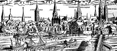 Cropped version of: Bremen in the 16th century. Oldest preserved view of the city of Bremen. Woodcut by Hans Weigel (Nuremberg) from the year 1564, based on a drawing by Meister M. W. (master M. W.).